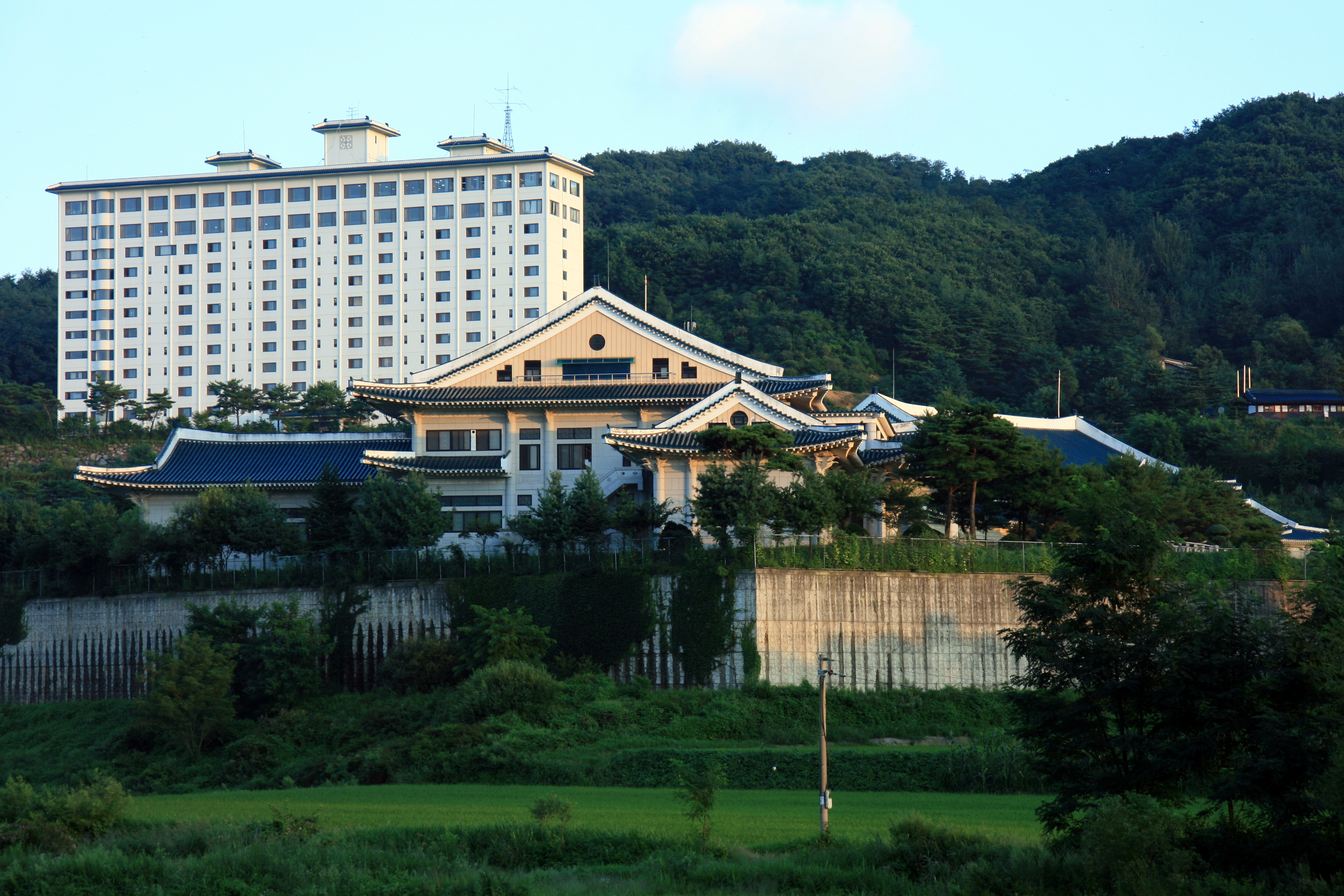 Southeast view of Dasan Hall and the student dormitory at sunset; Korean Minjok Leadership Academy (민족사관고등학교).